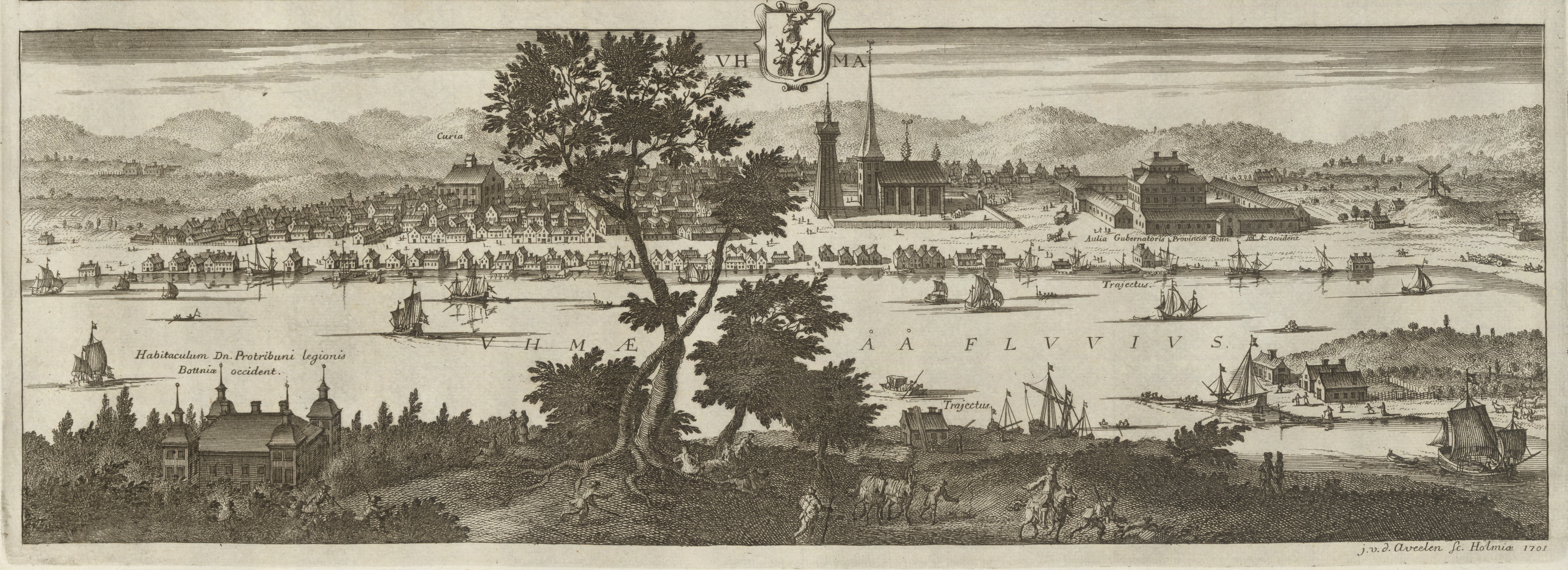 Part of Dahlbergh, Erik, 1625-1703: Suecia Antiqua et Hodierna. - (Stockholm : s.n., 1698-1701). ; Page II:71.